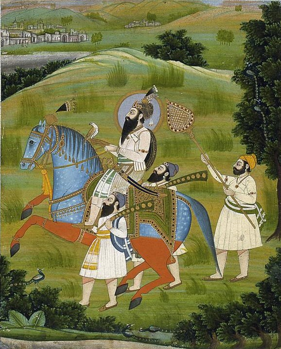 Punjab state